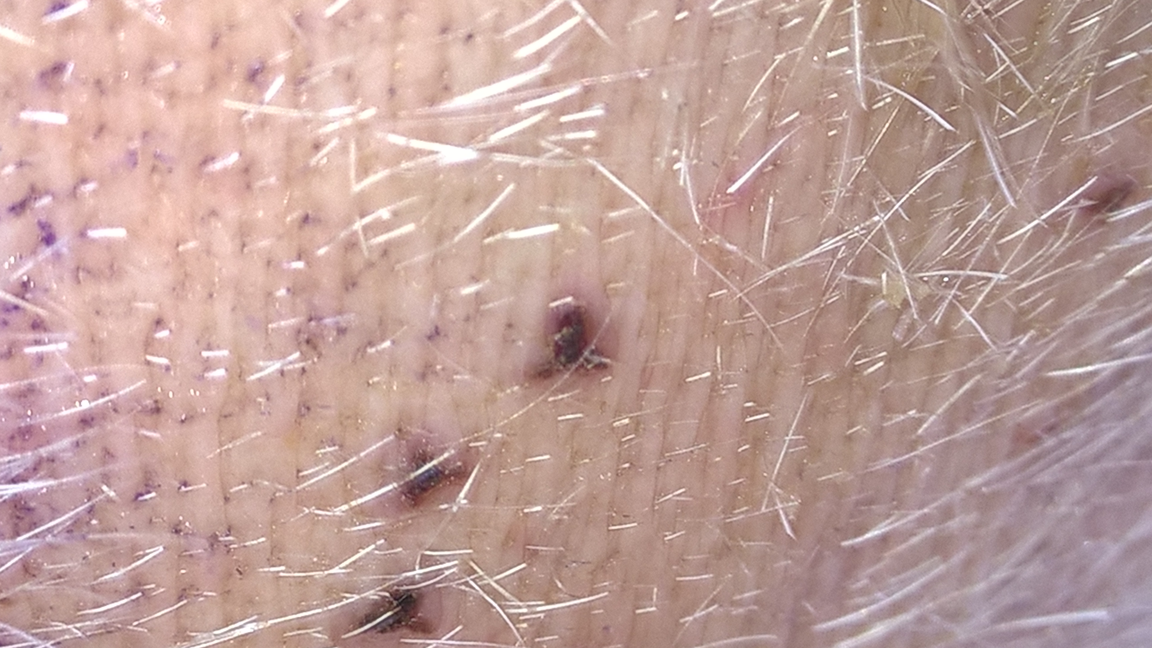 bite site of leach on Dairy cow udder